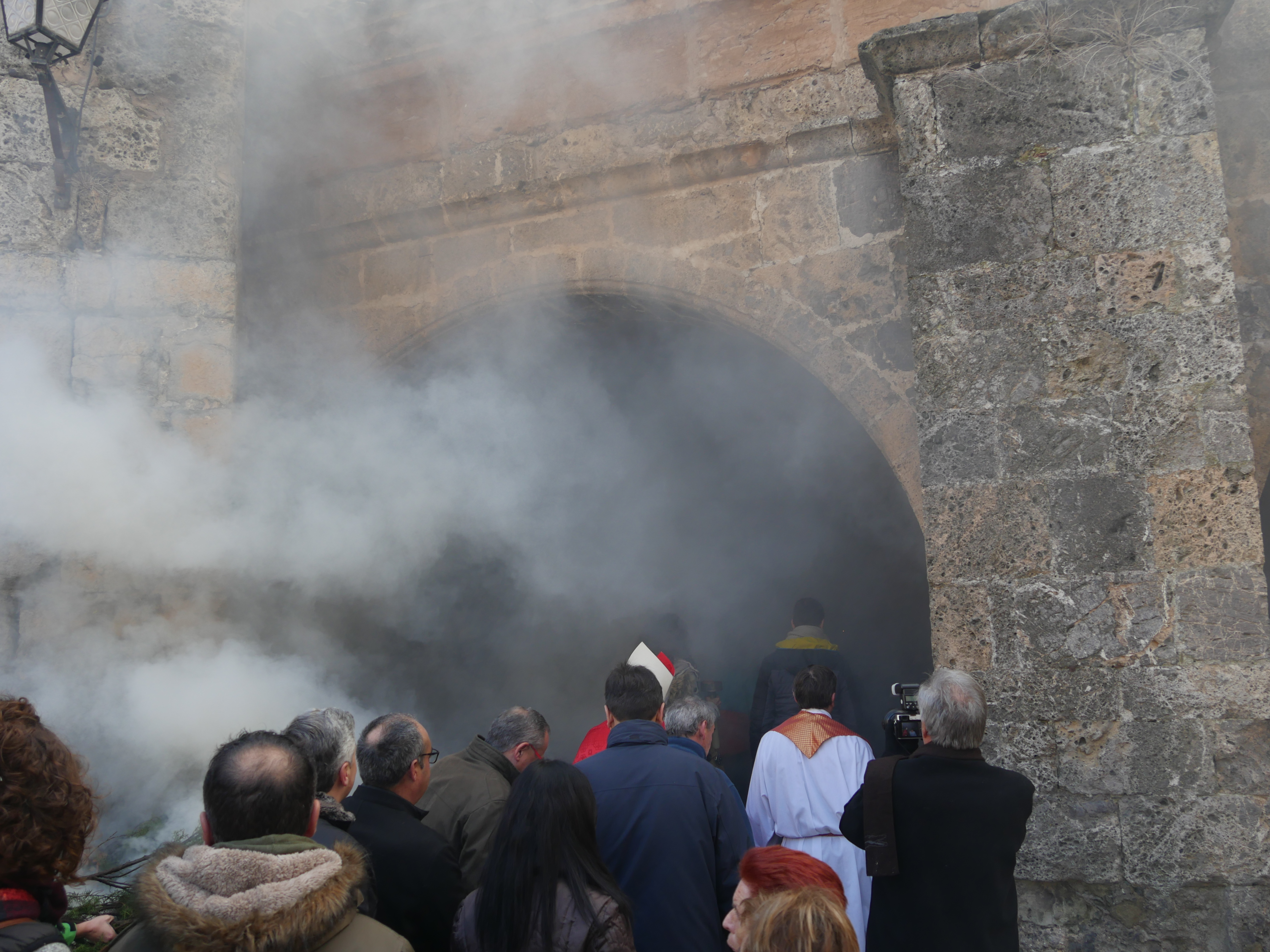 Procession of the smoke (Procesion del humo) 2017 enters on the Church of San Servando and San German in Arnedillo, La Rioja, Spain.